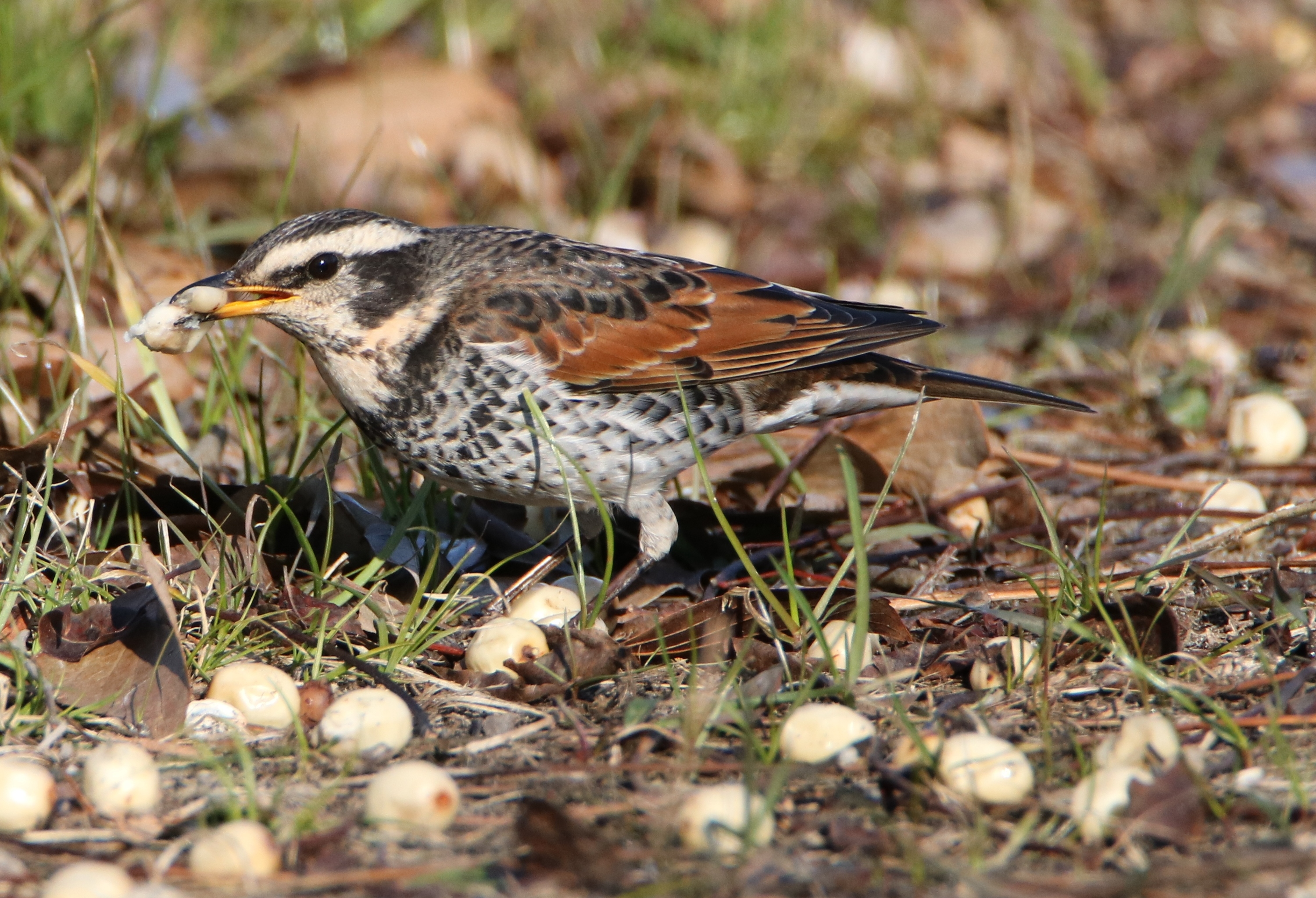 Turdus eunomus eating fruits of Melia azedarach in Aichi Pefeture, Japan.